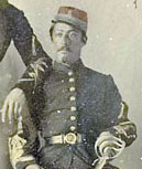 LCol Georges Augustus Gaston De Coppens